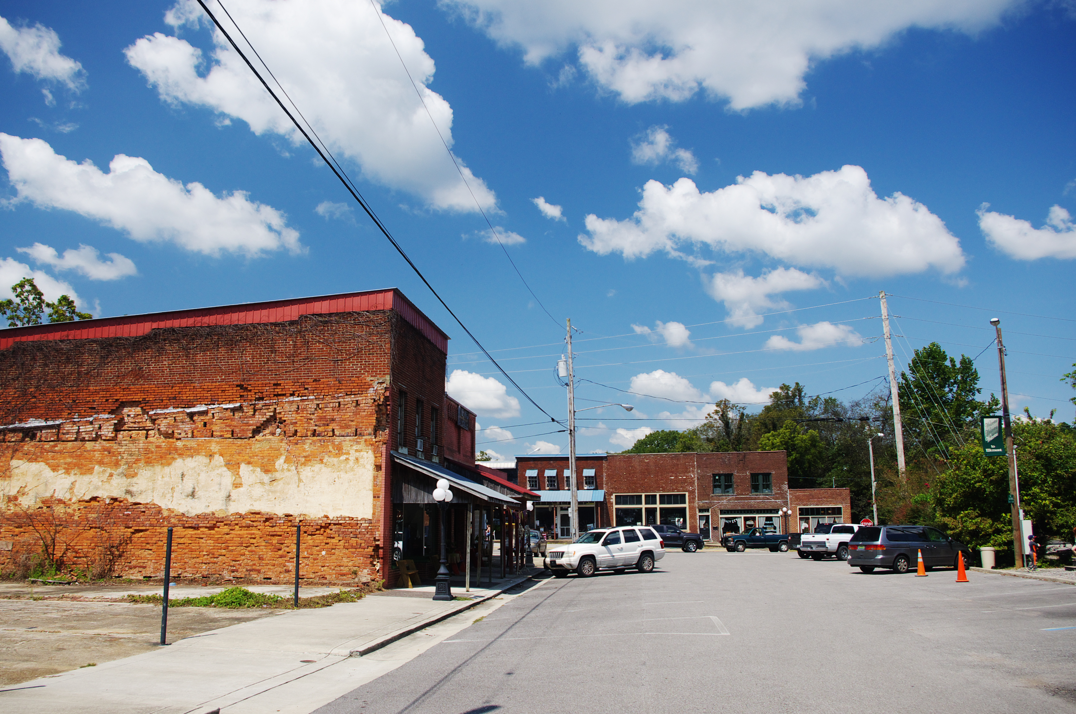 View looking north along Railroad Street in Elkmont, Alabama, United States.